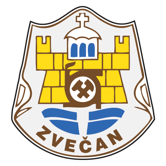 Coat of Arms of Zvečan